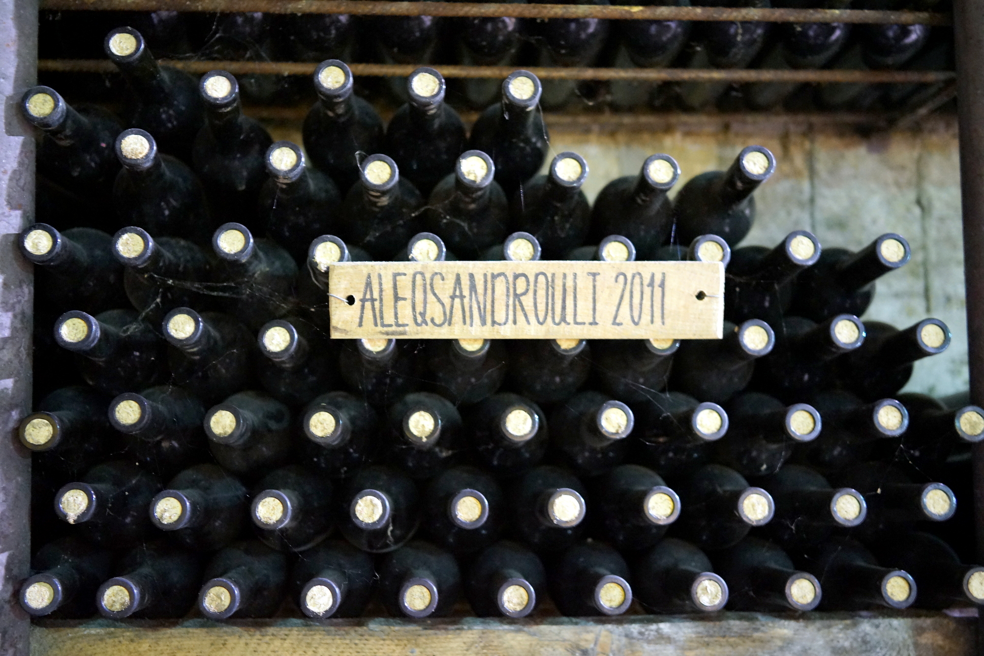 Wine bottles of Georgia